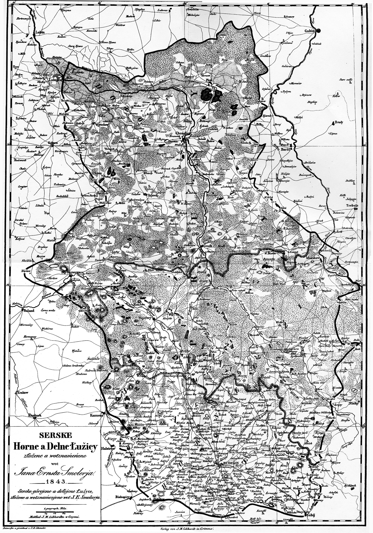 Territory of Lusatian Sorbs 1843 Hornjoserbsce: Serbski sydlenski rum w l. 1843